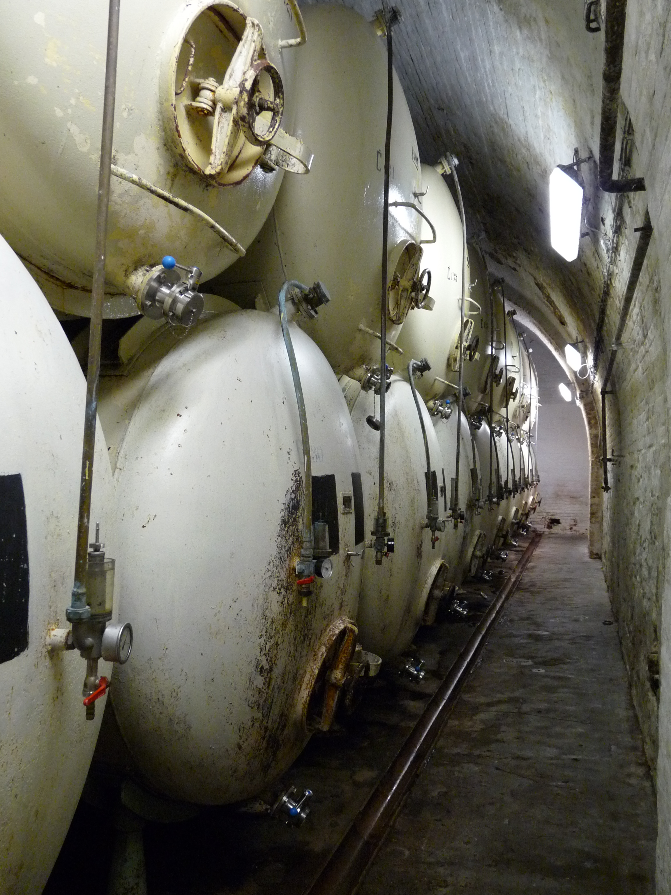 Larger tanks, Třeboň brewery